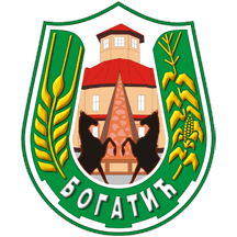 The Coat of arms of the city and municipality of Bogatić in Serbia